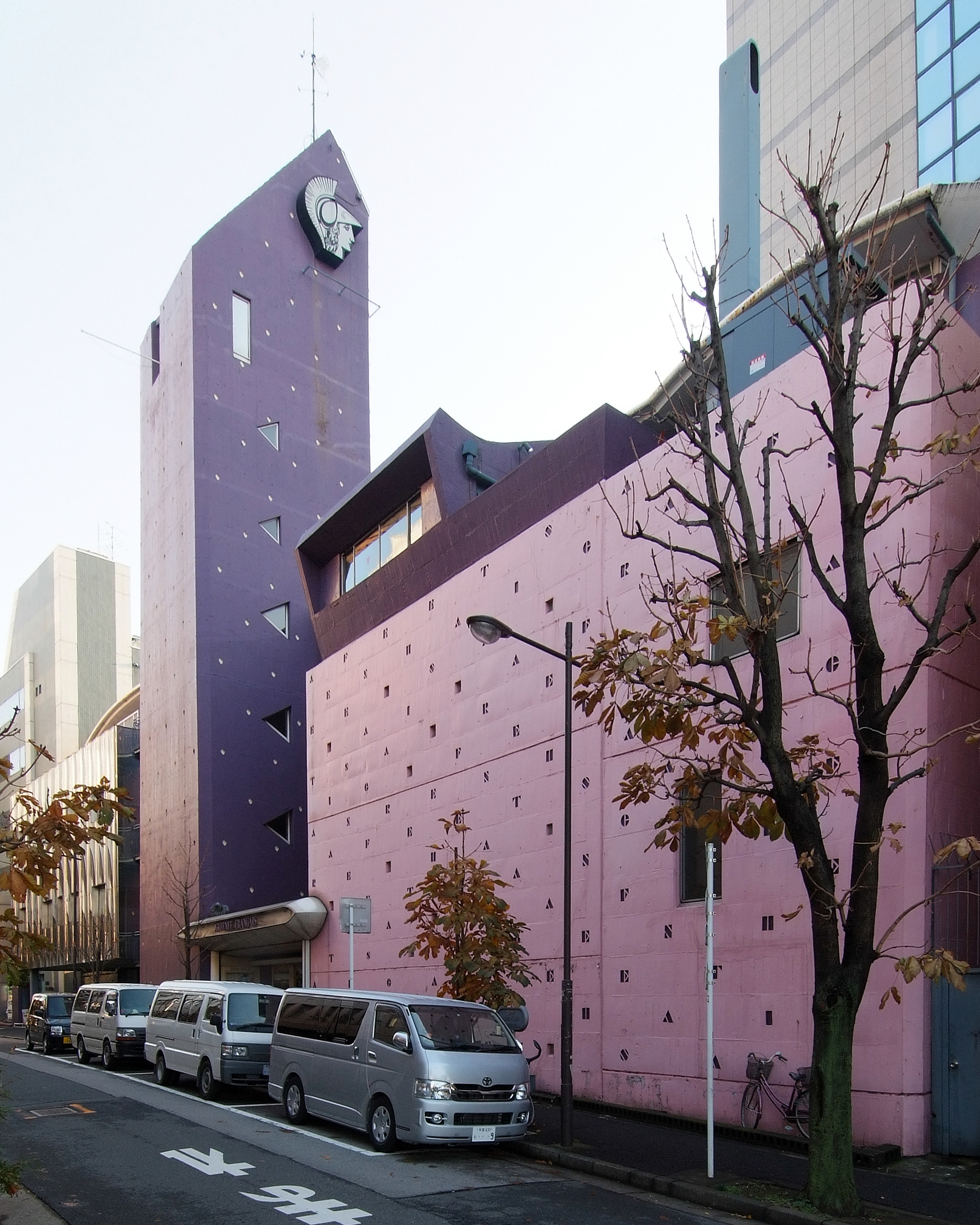 Athenee Francais, at Ochanomizu Tokyo Japan, design by Takamasa Yoshizaka in 1962.